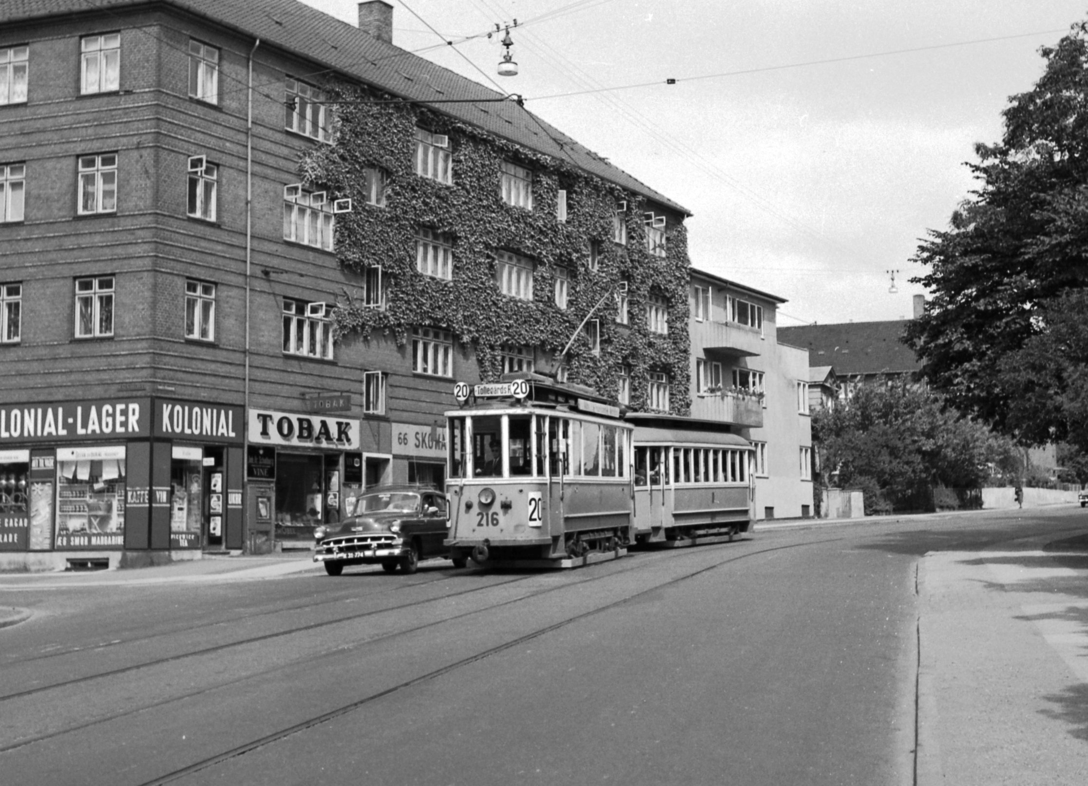 Tram 216 on line 20 on Søndre Fasanvej at Magnoliavej in Copenhagen. The trams have the Copenhagen coats of arms on their side, which they got in 1954. Line 20 was closed in 1958.